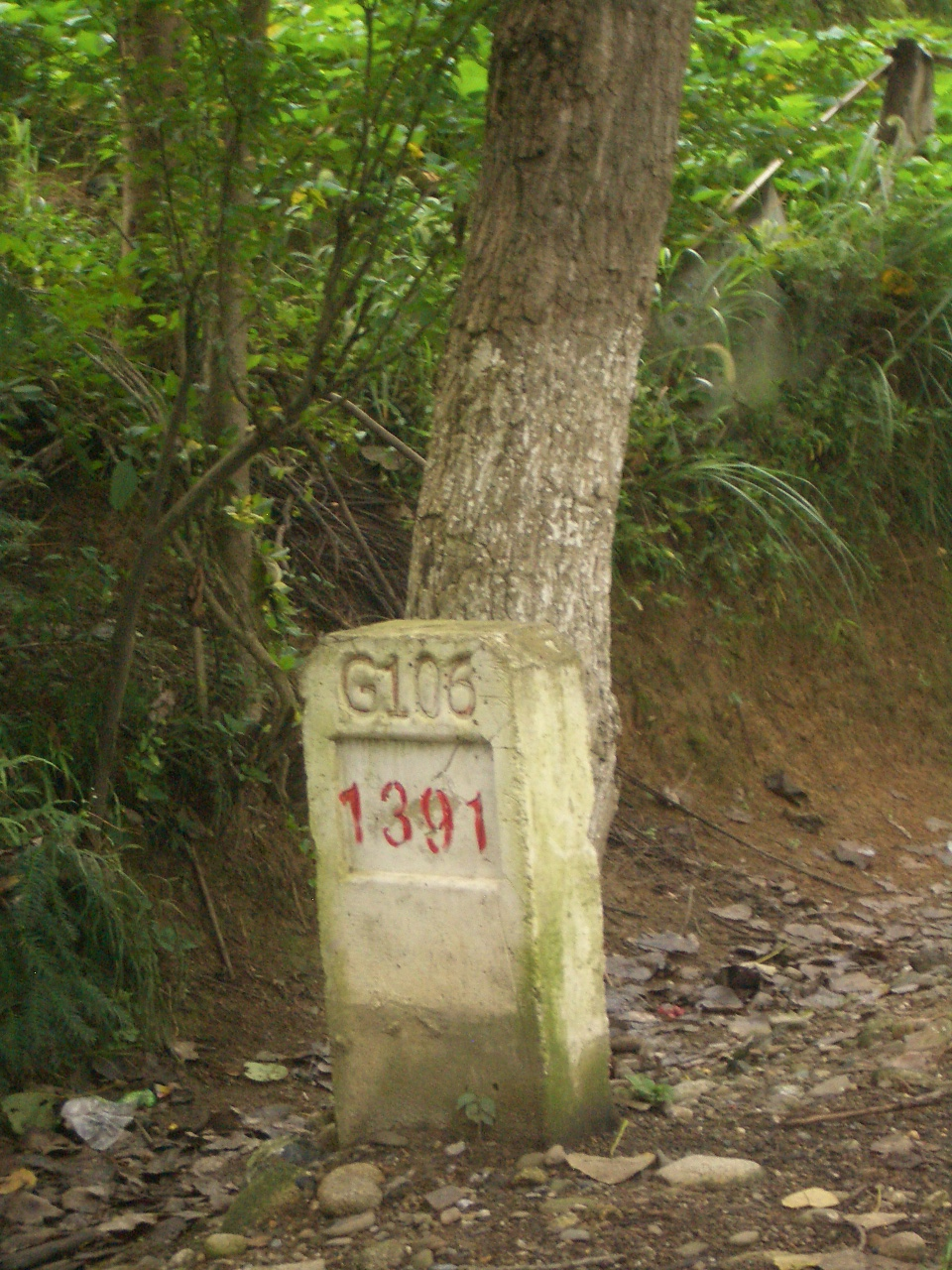 A kilometer post (1391 km) on G106 between Hengshitan (Jiugongshan Town) and Honggang Town in Tongshan County, Hubei.